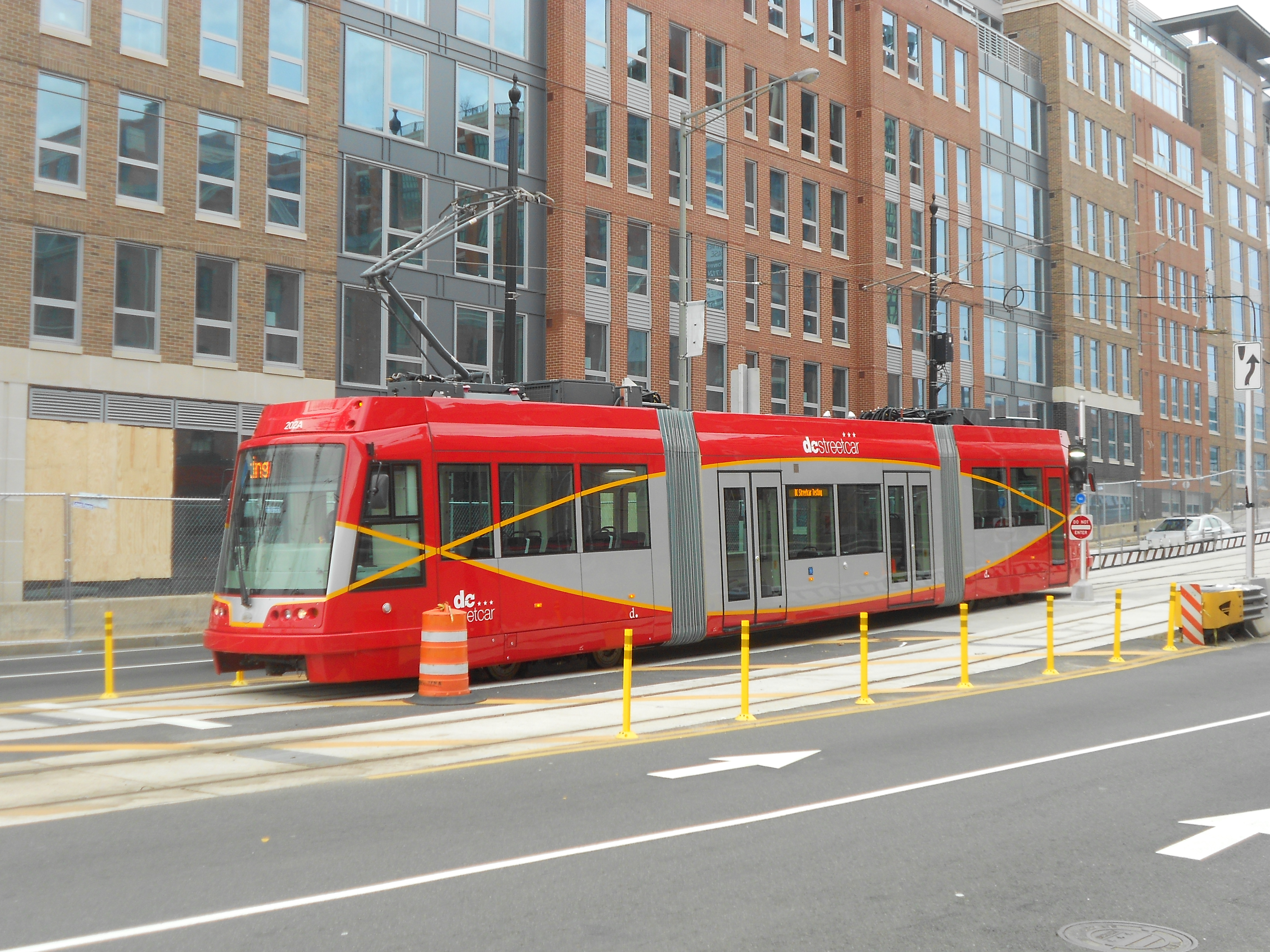 New Washington DC streetcar being tested along H Street NE. Car 202 was built in 2013 by United Streetcar, of Oregon.